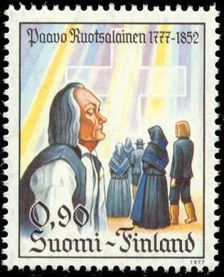 Postage stamp commemorating the Finnish preacher Paavo Ruotsalainen